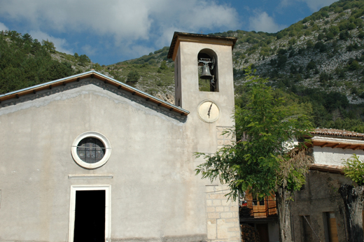 Exterior of the Church of Saints Fabiano and Sebastian, Fiamognano, Italy